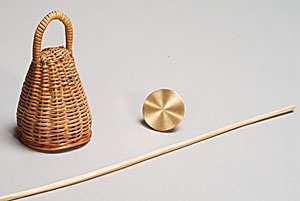 Caxixi, Baqueta, Dobrao - berimbau accessories.